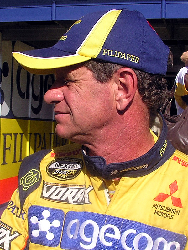 Ingo Hoffmann (AMG Motosport) at Stock Car Brasil in 2007.